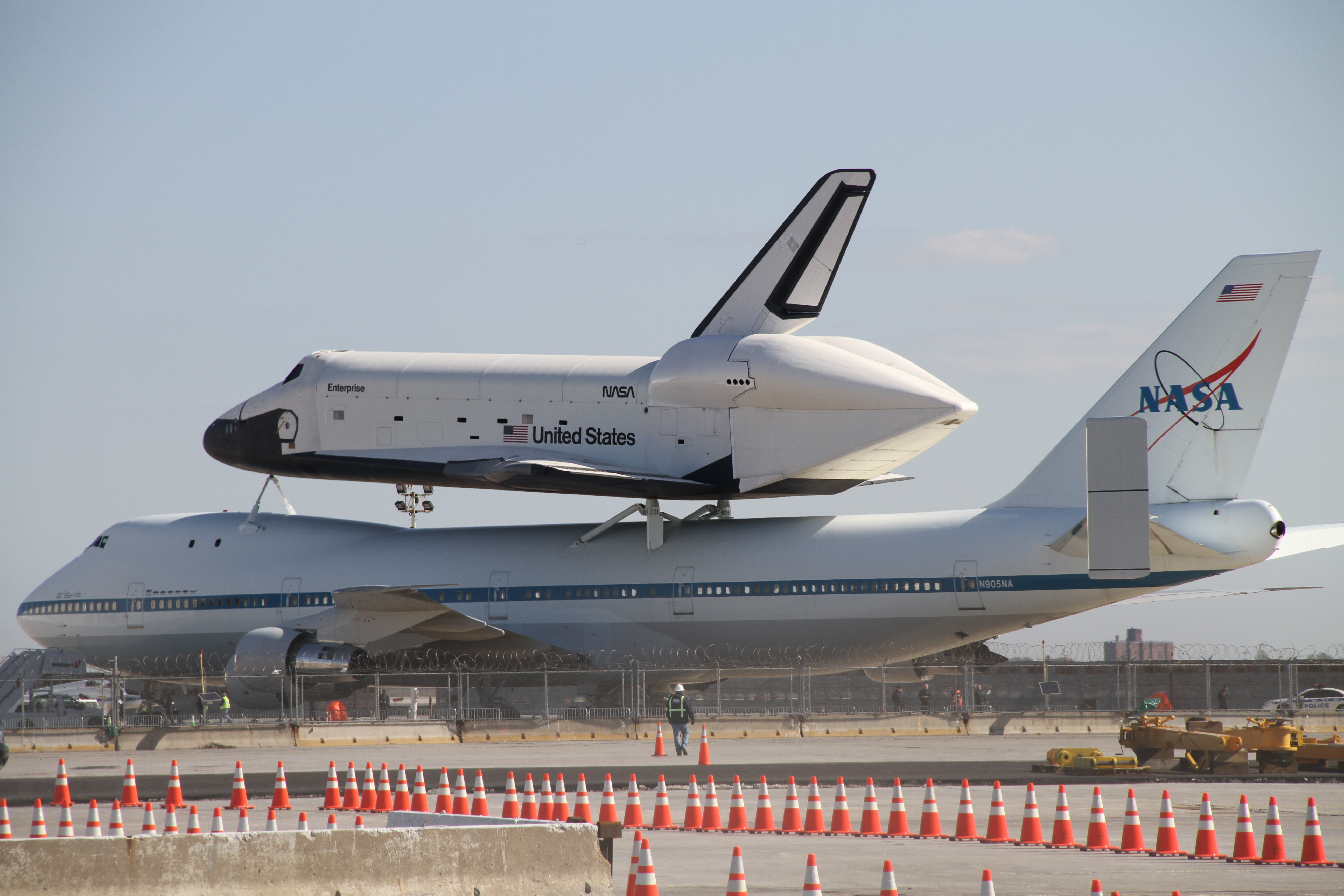 Space Shuttle Enterprise